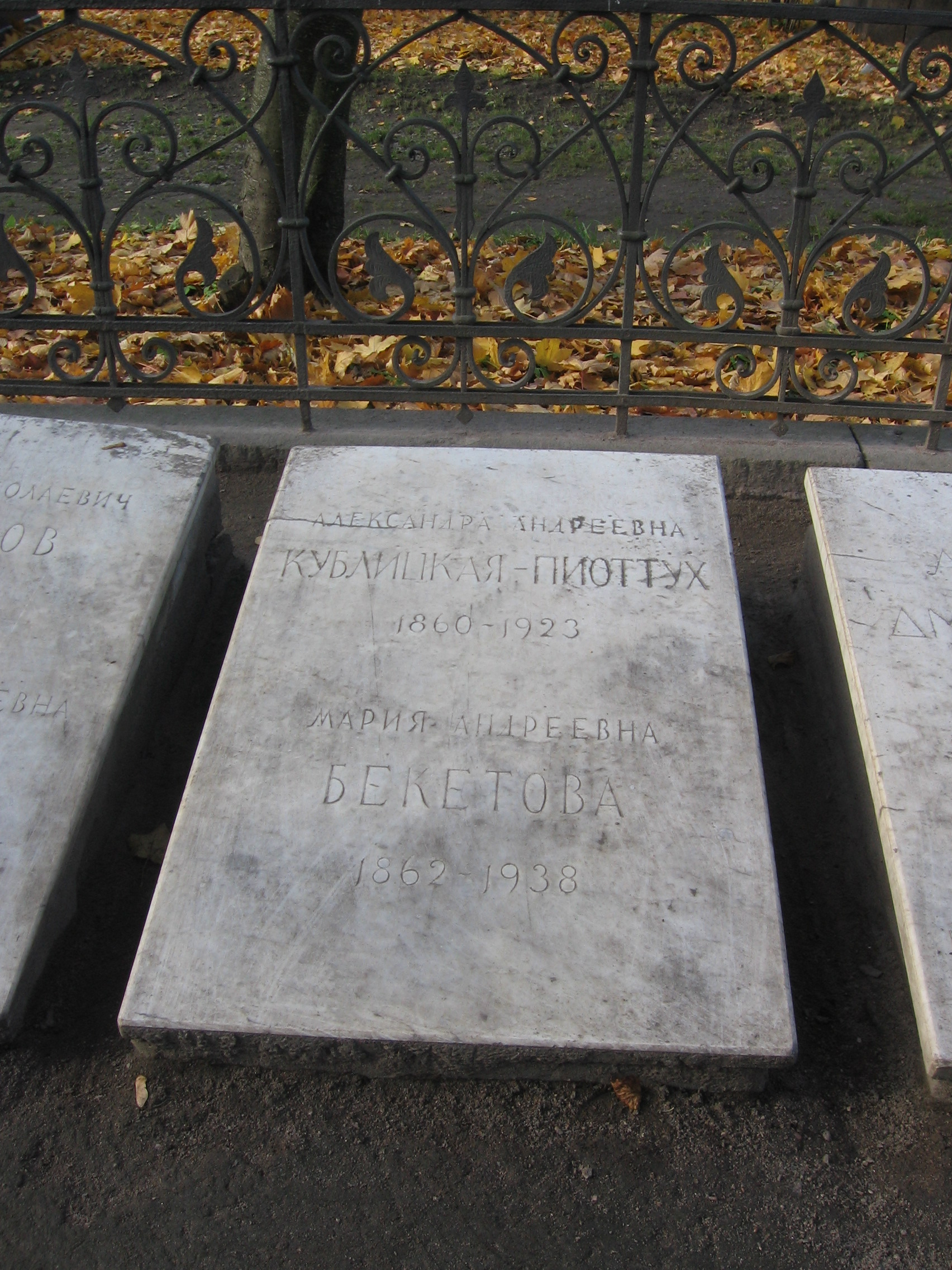 Grave of Alexandra Beketova (Kublitskaya-Piottukh) and Maria Beketova